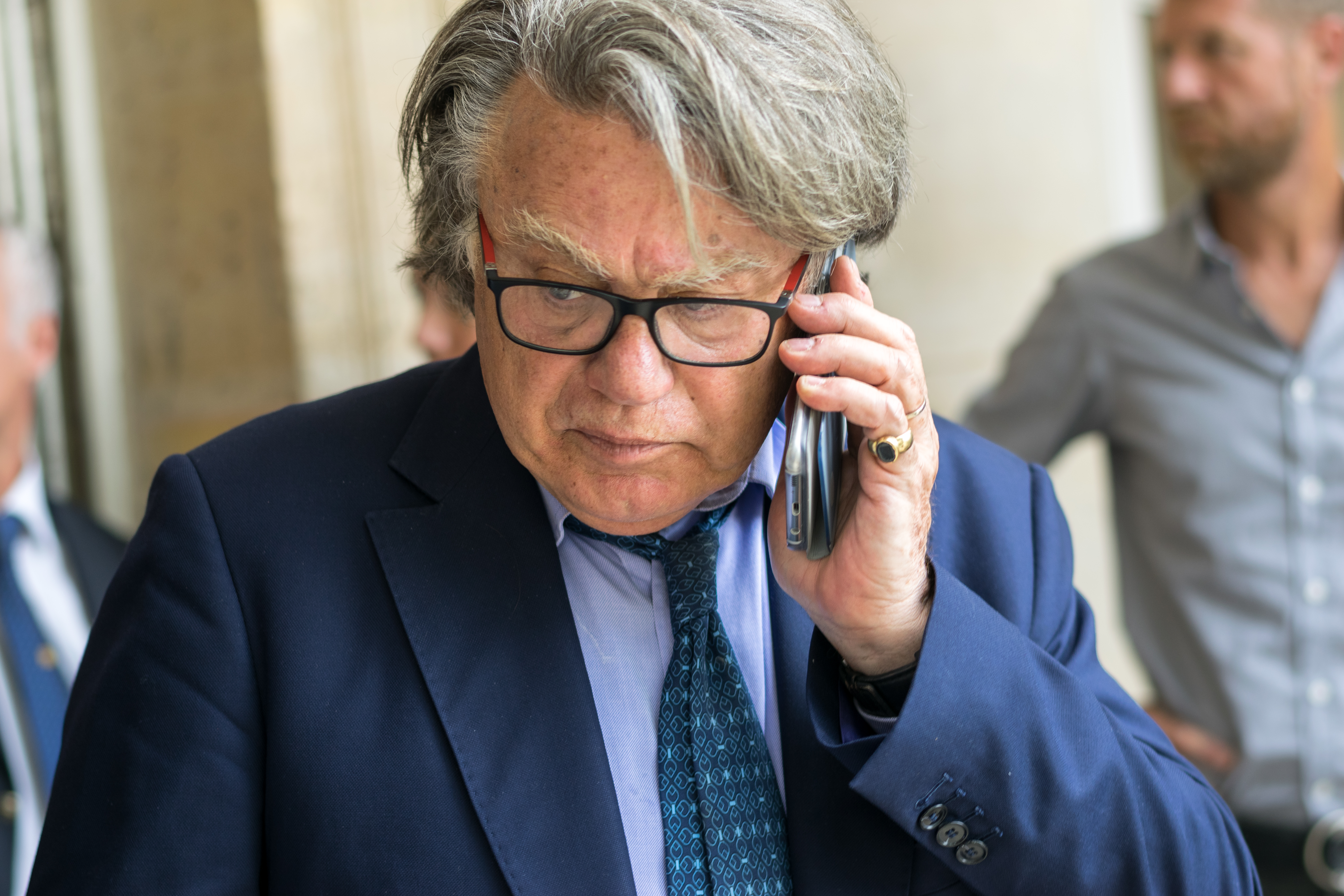 Gilbert Collard in the garden of the Quatres Colonnes in the Palais Bourbon (Paris, France).